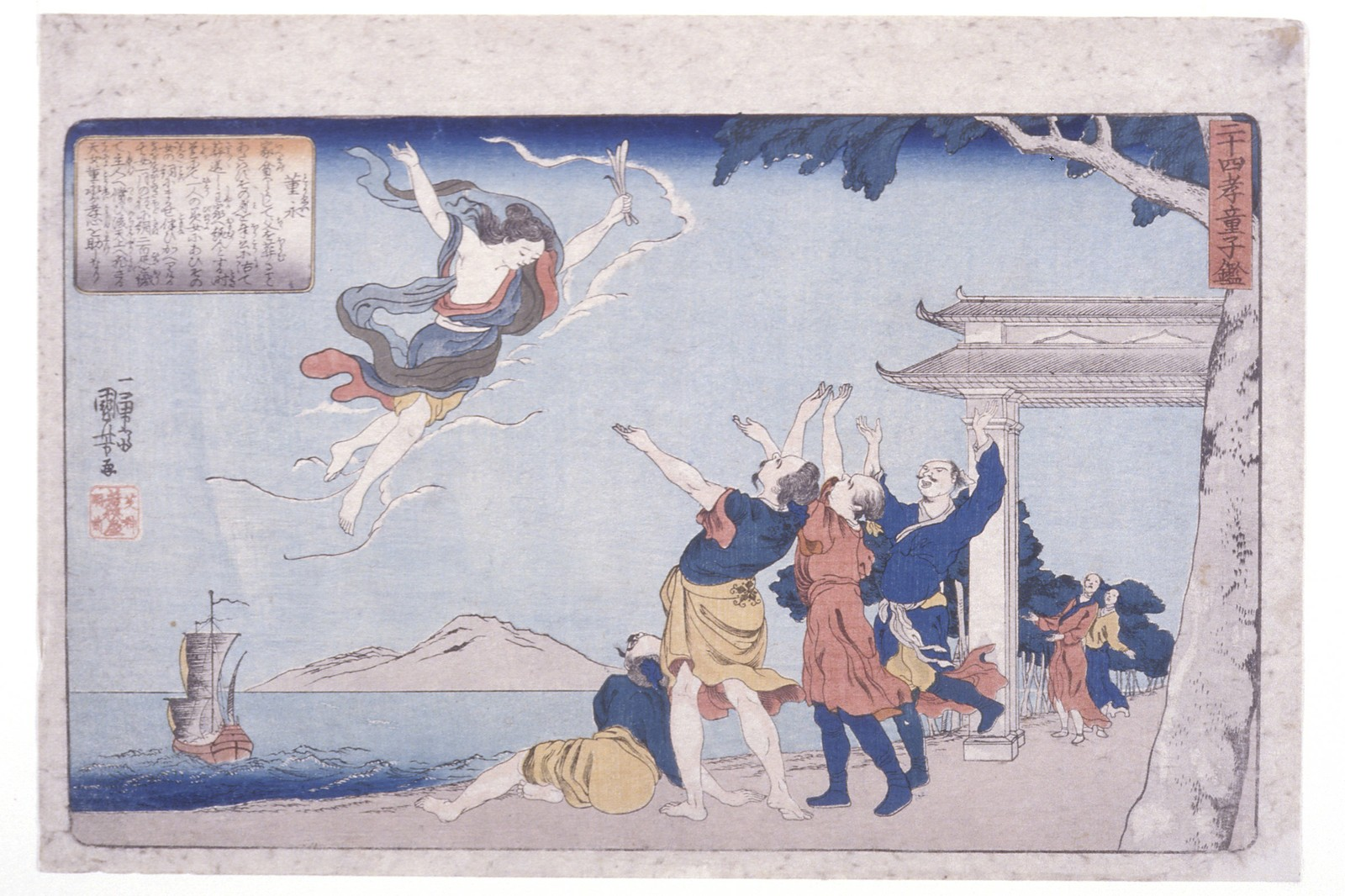 Inscription: Dong Yong. Too poor to be able to bury his father, he sold himself. On his way home from the burial he met a beautiful woman on the street. Following her instructions he went home with her and in the course of a month she wove two hundred bolts of silk to repay [Dong Yong’s] debt to his master and after, she flew up to the heavens from where she had been sent to help Dong Yong because of his filial heart. Dimensions: 8 3/8 x 13 5/8 in. (image) 9 13/16 x 14 3/8 in. (sheet) Accession number 17.144